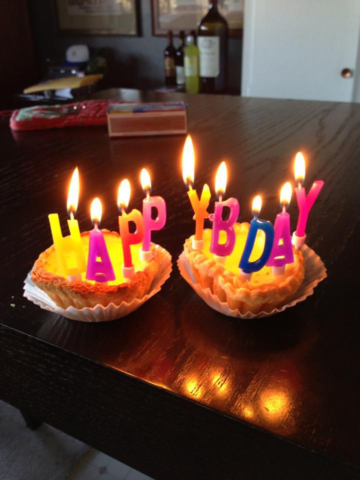 merri's bday 11/24/12